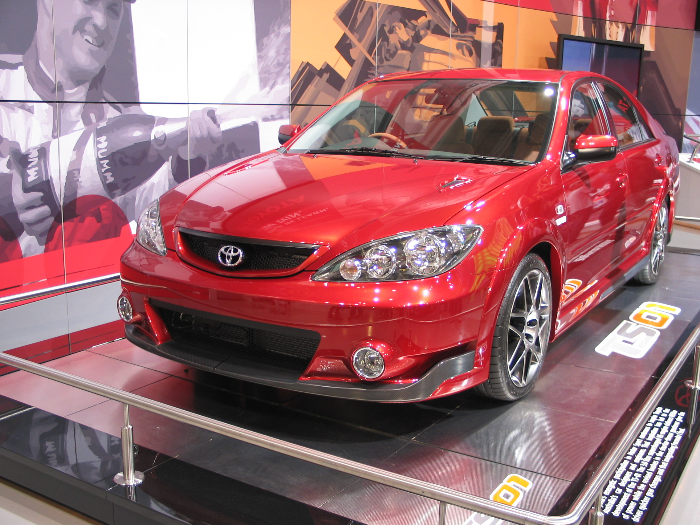 2005 Toyota Camry TS-01 concept, photographed at the 2005 Australian International Motor Show.